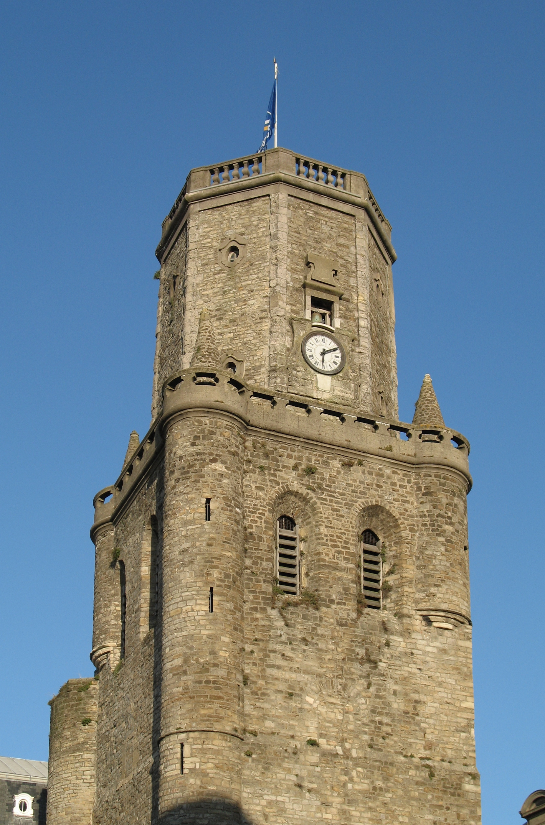 Boulogne-sur-Mer (département du Pas-de-Calais, France): the belfry